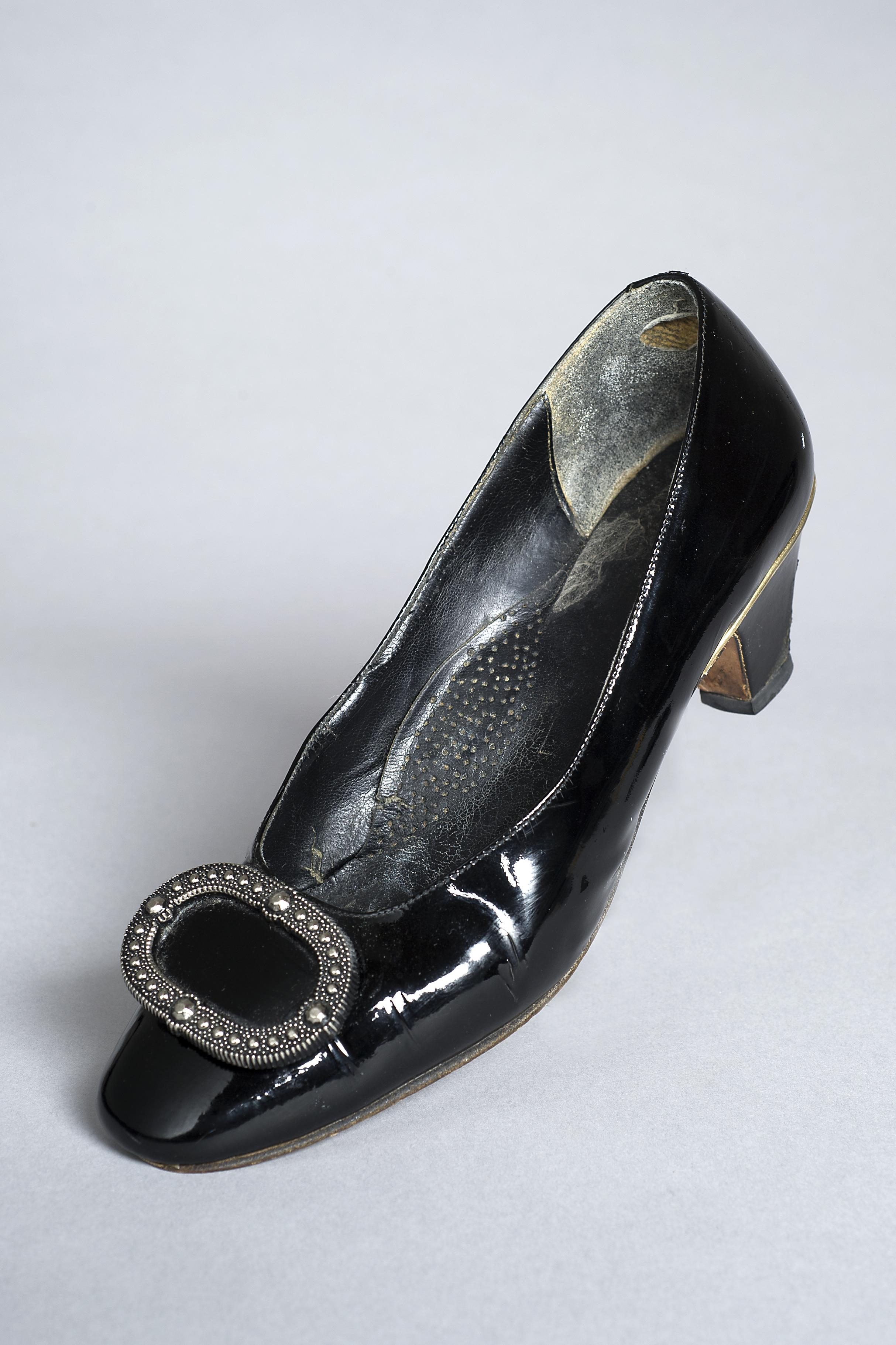 TWL/2000/200/3/1